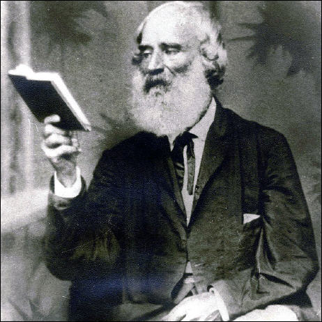 Portrait Photo of Adolf Fuchs